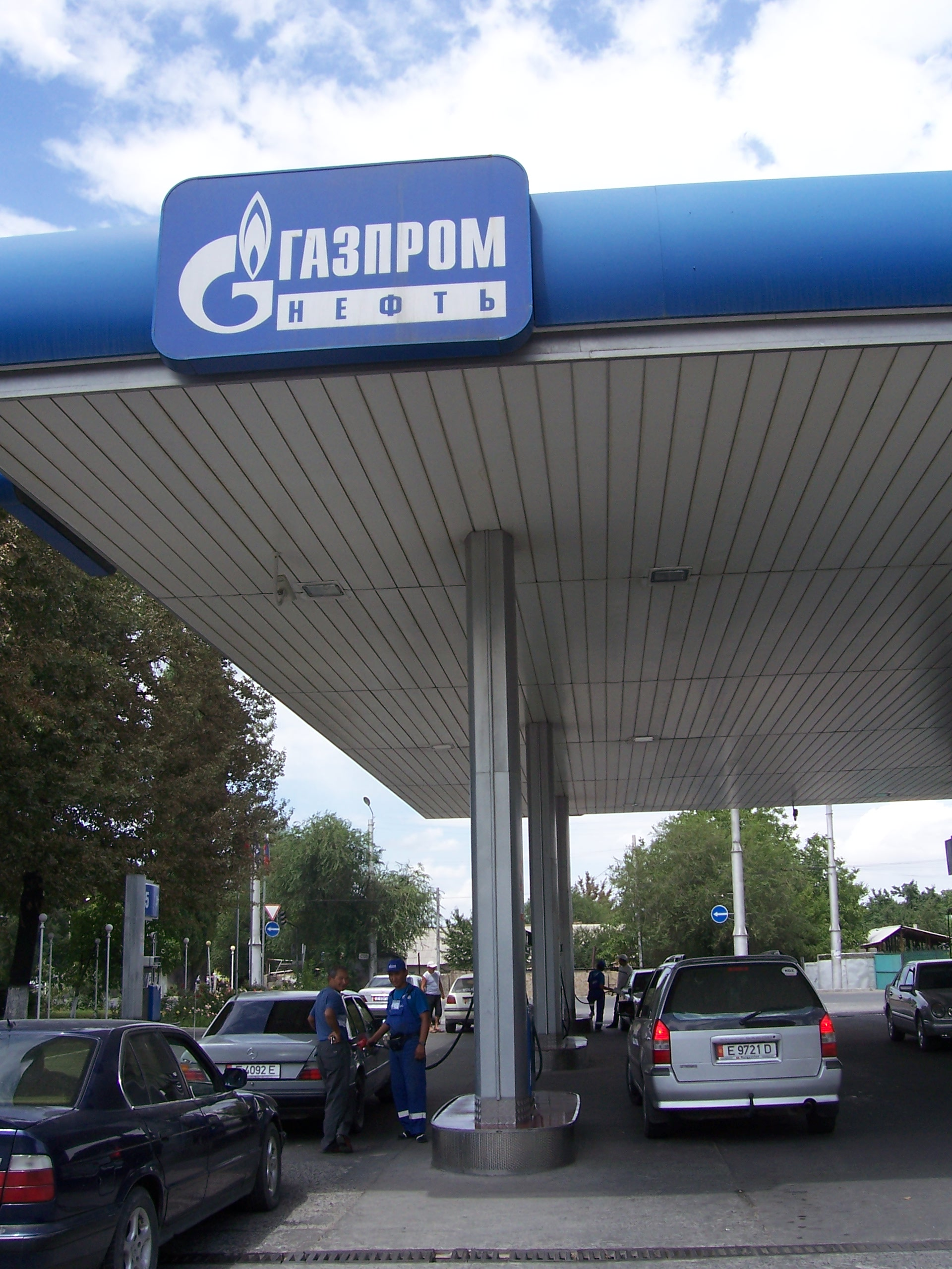 Gazprom Bishkek (Kirgisistan)